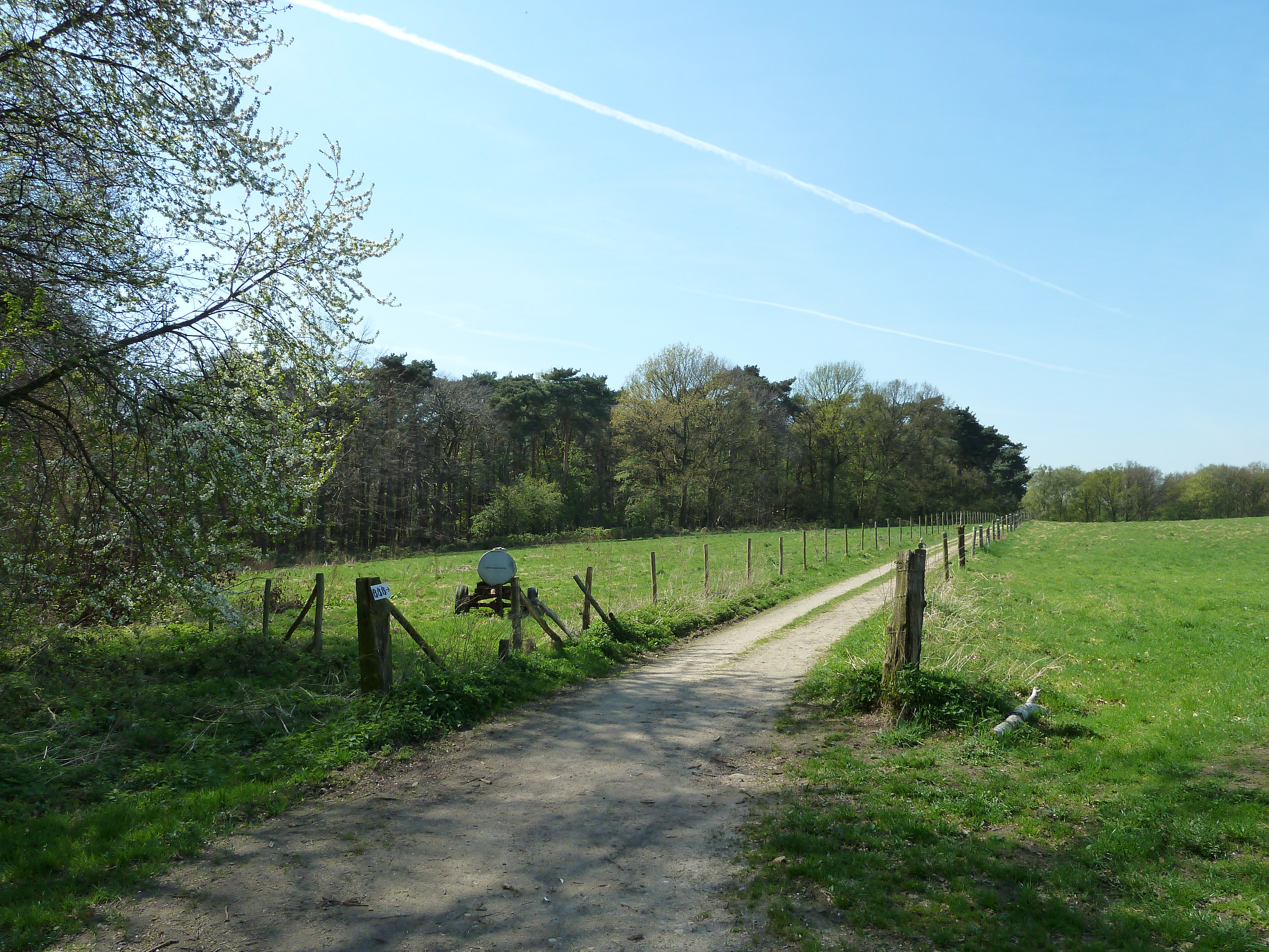 At crossing Beukenboomsweg-Sleijerweg, Sweikhuizen, Limburg, the Netherlands